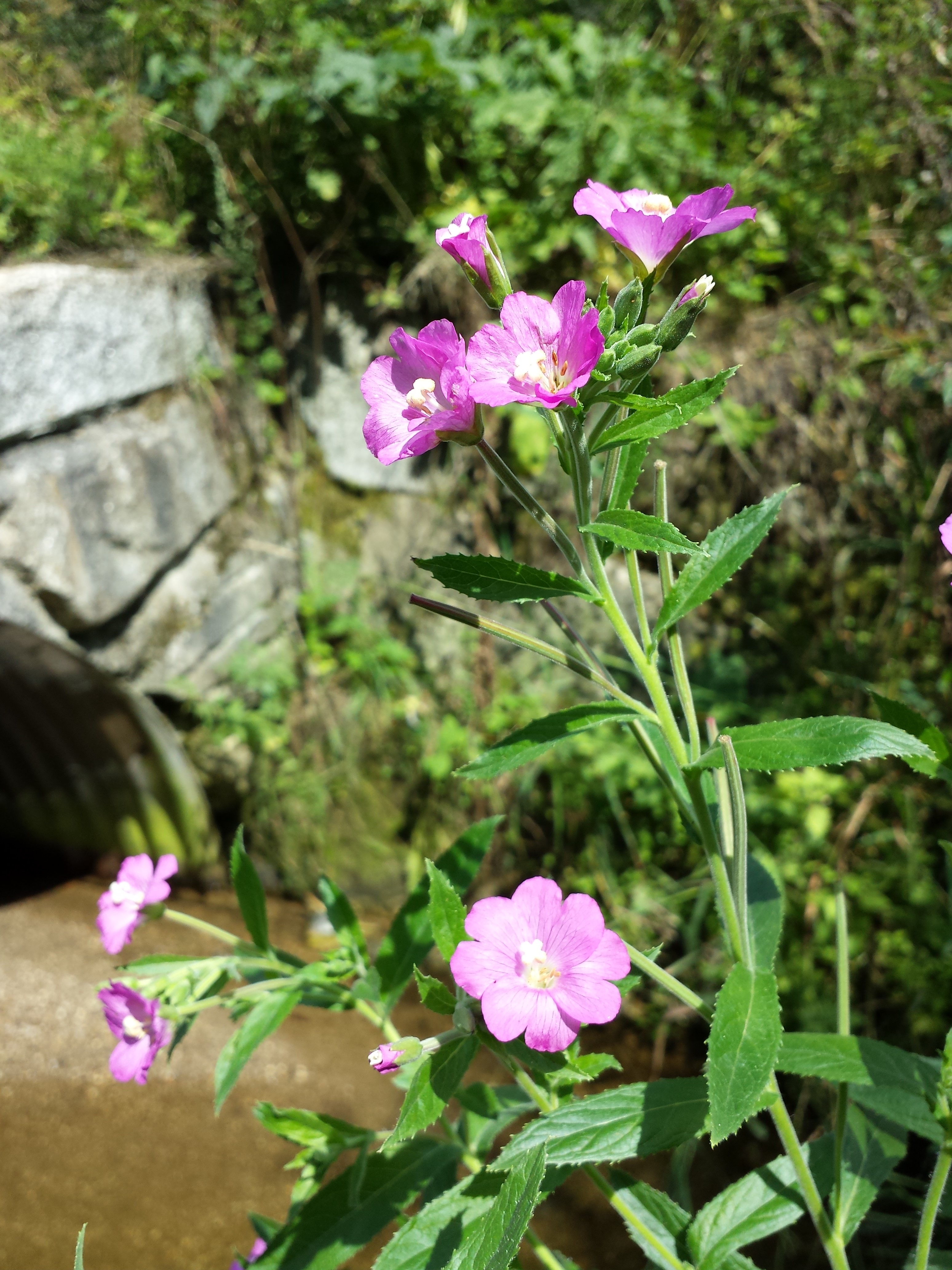 Inflorescence Taxonym: Epilobium hirsutum ss Fischer et al. EfÖLS 2008 ISBN 978-3-85474-187-9 Location: near Uttissenbachmühle, district Zwettl, Lower Austria - ca. 550 m a.s.l. Habitat: brookside